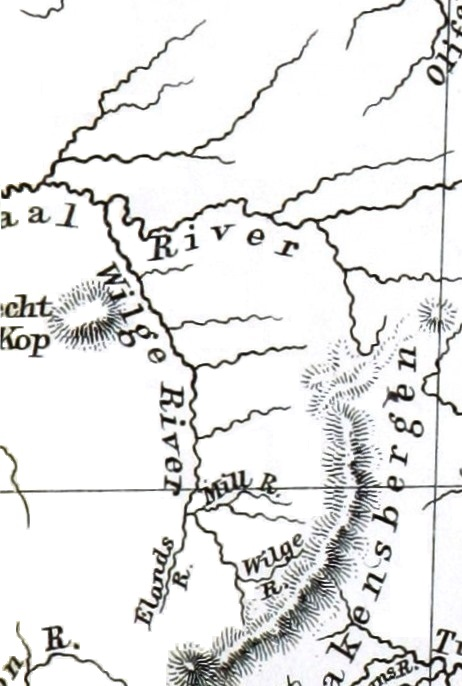 View this map on the BL Georeferencer service. Image taken from: Title: "History of the Boers in South Africa ... with three maps" Author: THEAL, George McCall. Shelfmark: "British Library HMNTS 9061.eee.18." Page: 11 Place of Publishing: London Date of Publishing: 1887 Publisher: Sonnenschein & Co. Issuance: monographic Identifier: 003607007 Explore: Find this item in the British Library catalogue, 'Explore'. Download the PDF for this book (volume: 0) Image found on book scan 11 (NB not necessarily a page number) Download the OCR-derived text for this volume: (plain text) or (json) Click here to see all the illustrations in this book and click here to browse other illustrations published in books in the same year. Order a higher quality version from here. This file is from the Mechanical Curator collection, a set of over 1 million images scanned from out-of-copyright books and released to Flickr Commons by the British Library. Please add the Flickr page URL for the image Please add the British Library system number for the book This tag does not indicate the copyright status of the attached work. A normal copyright tag is still required. See Commons:Licensing.